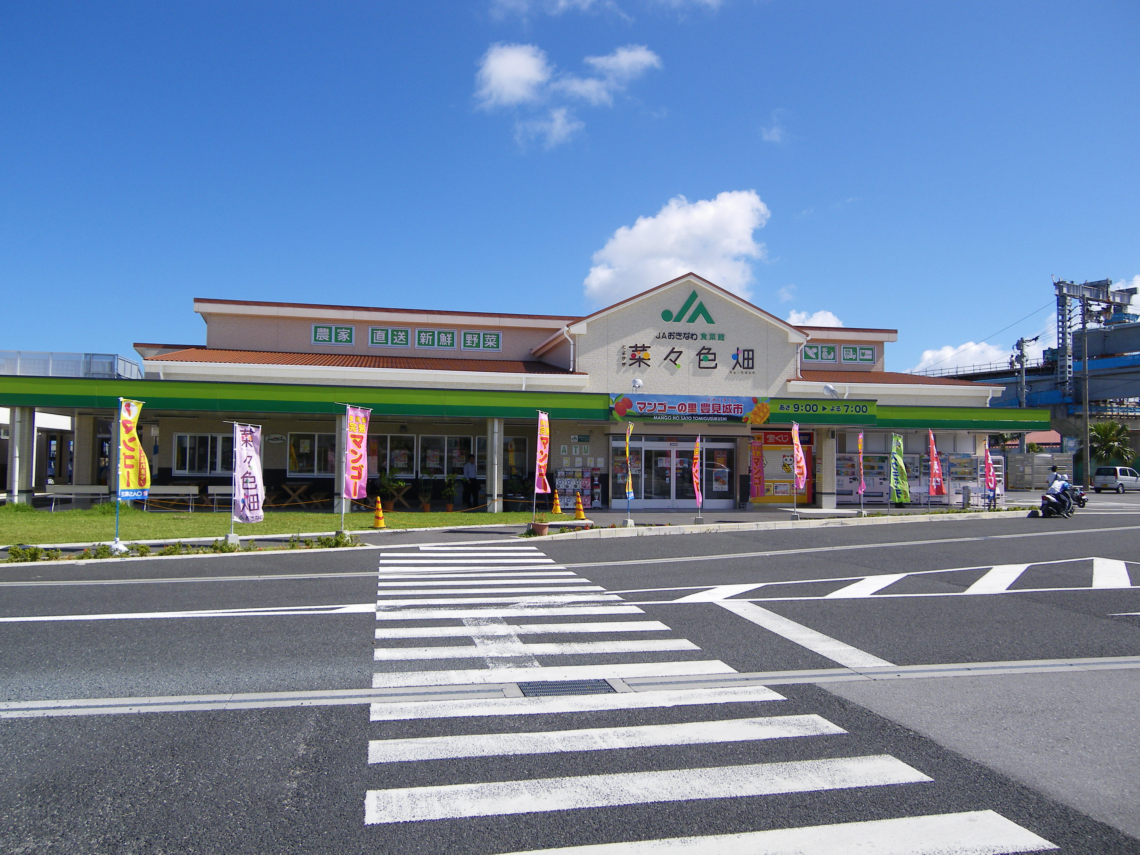 The Store Nanairo managed by JA, Okinawa.